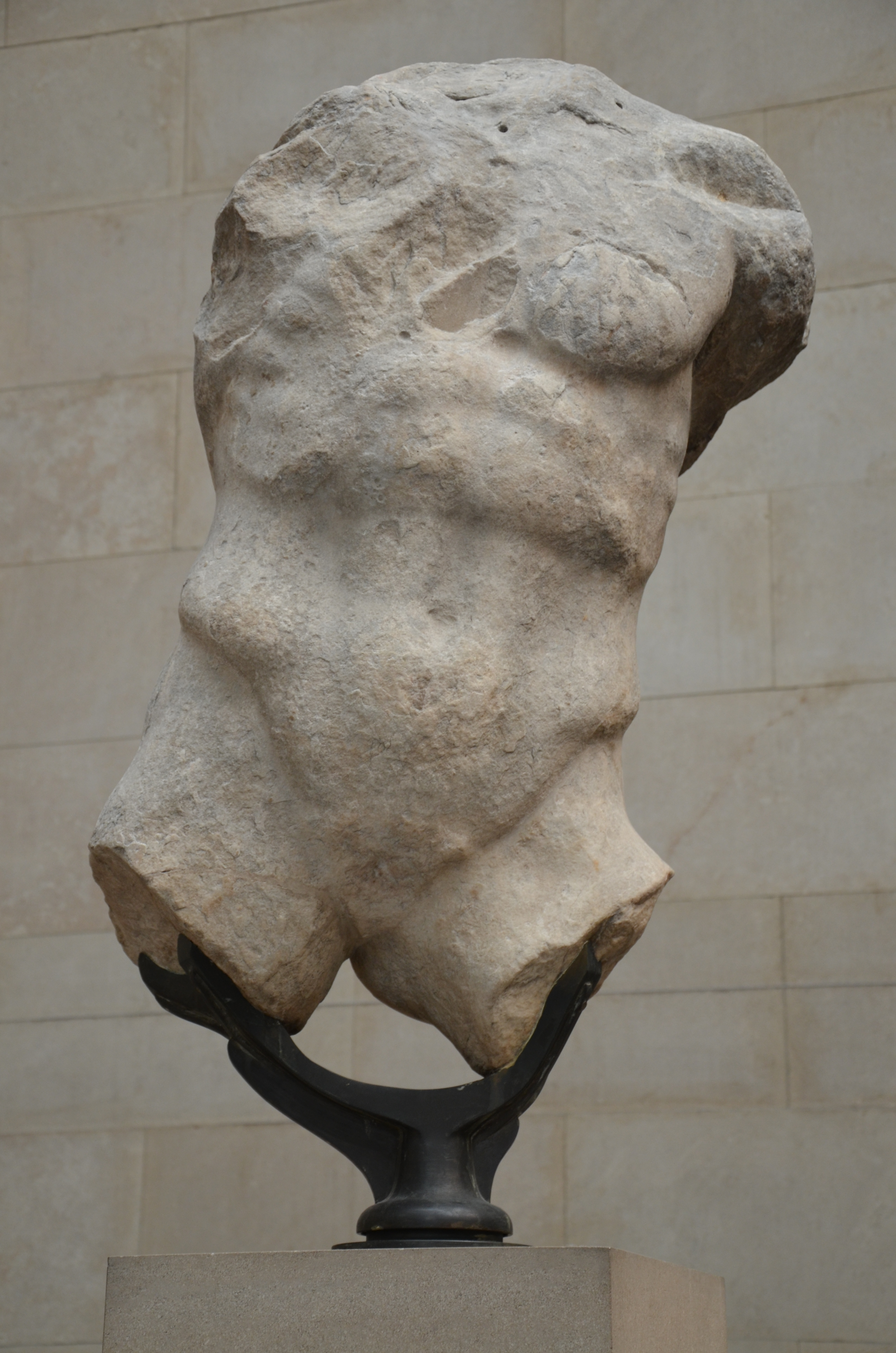 The Parthenon sculptures, British Museum